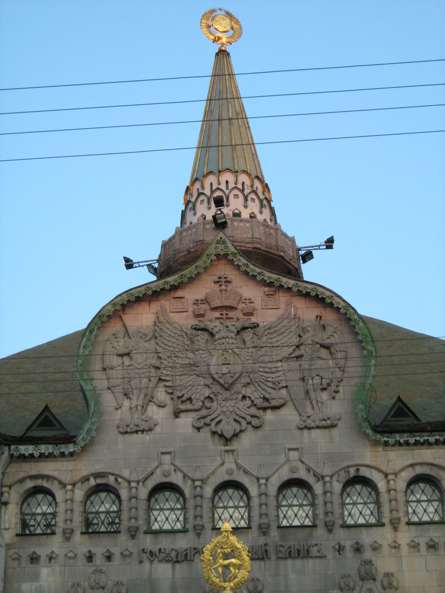 The State Bank building in Nizhny Novgorod, the spire and the imperial coat of arms.